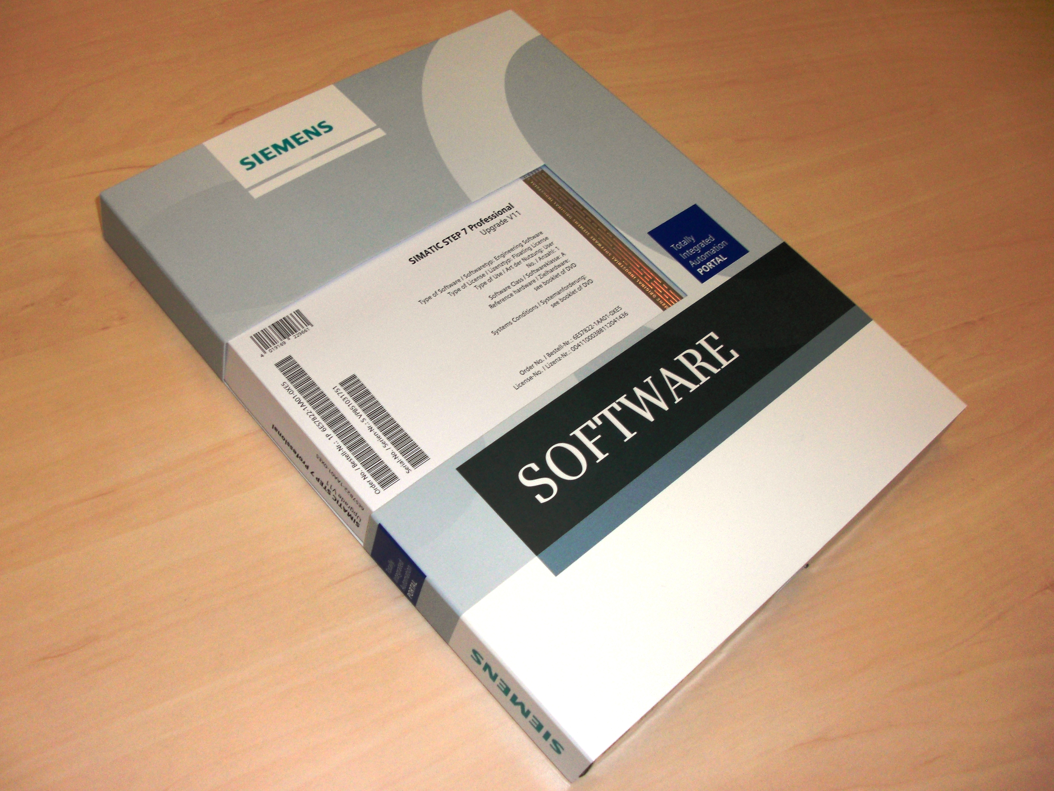 The Siemens SIMATIC S7 STEP 7 V11 Software Package.